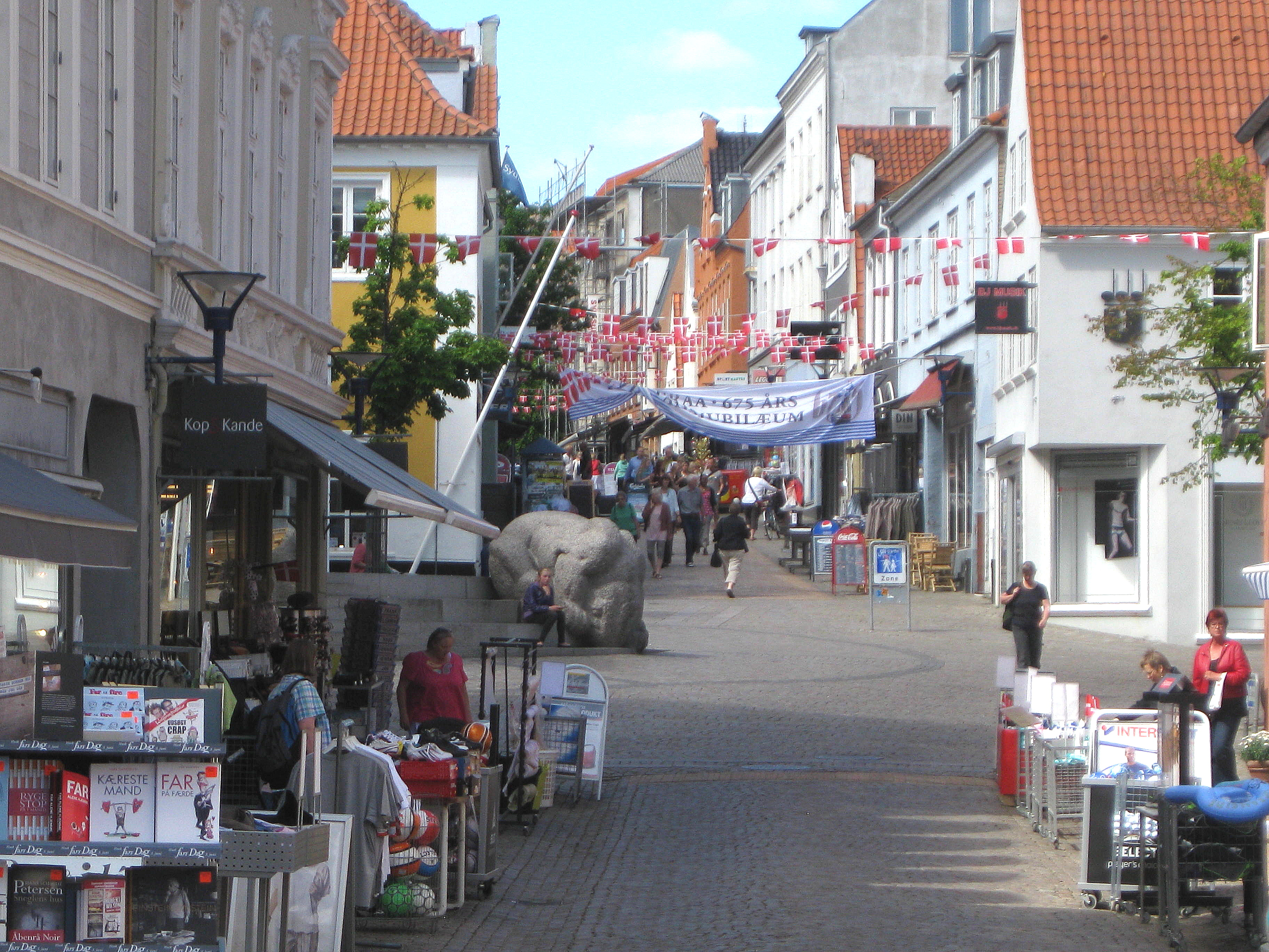 The pedestrian street "Storegade" in the town "Aabenraa". The town is located in Southern Jutland, Denmark.